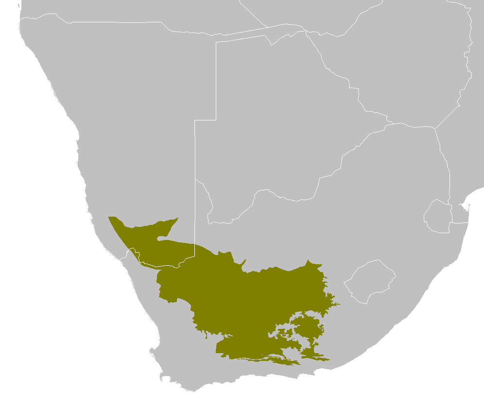 The Nama Karoo ecoregion